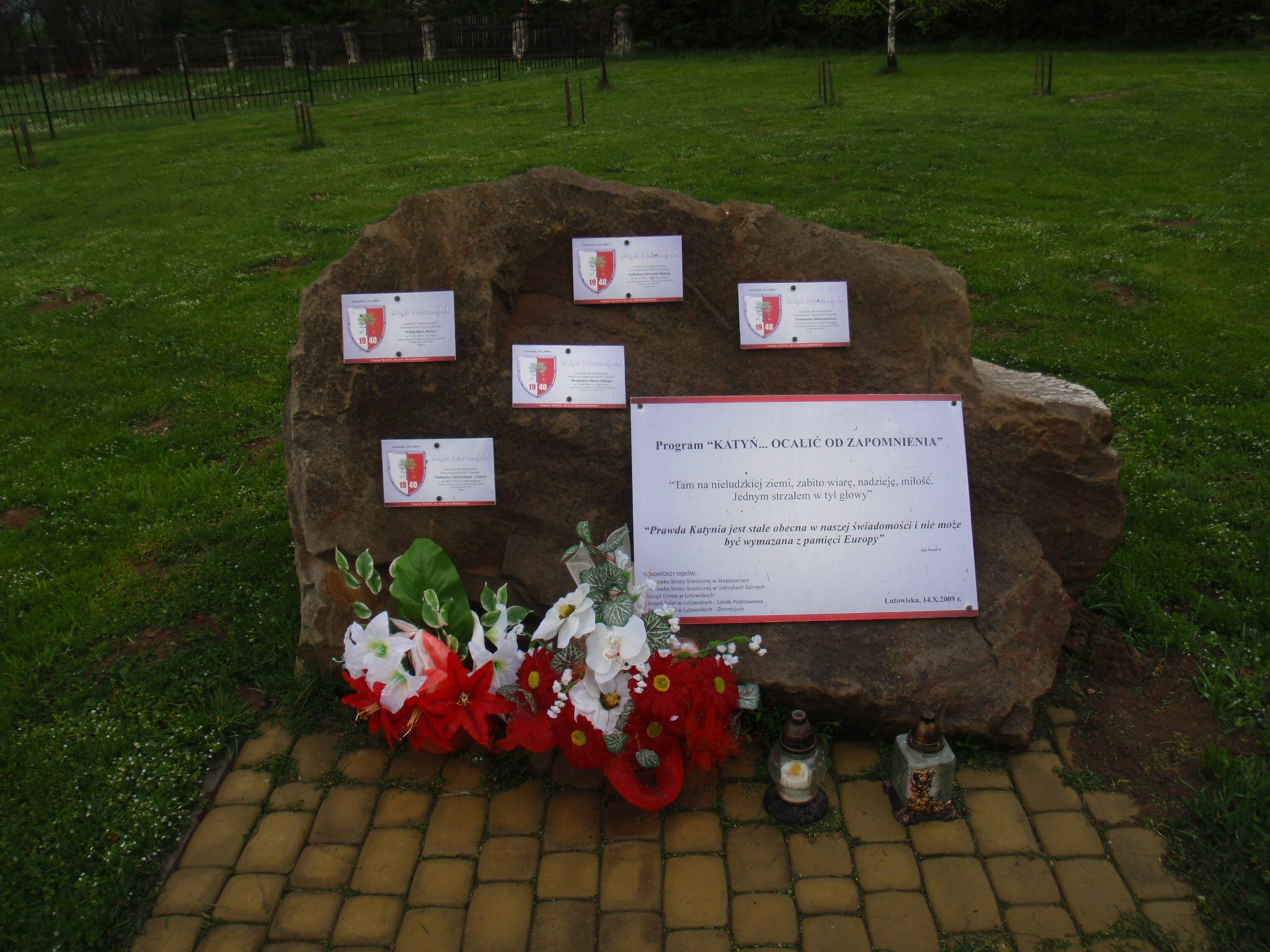 Monument in Lutowiska commemorating killed in Katyń